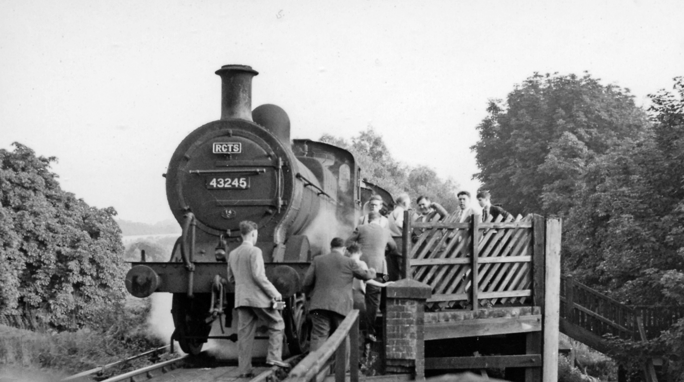 Heath Park Halt, with RCTS Rail Tour. View northward, towards Harpenden Junction: ex-Midland branch from Harpenden, the 'Nickey Line'. The Halt was the terminus for passengers, until the service ceased from 16/6/47, but the line continued a short distance to the Gasworks until 8/59, a connection also having been put in from the adjoining ex-LNW Hemel Hempsted station in 1948. The Nickey Line was however not taken up until 24/7/79, having been purchased and used by the Hemelite (Brickworks) Co. from 30/4/68. The photograph was taken on the occasion of the RCTS 'Northern & Eastern' Rail Tour of 10/8/58 (see TL0449 : Bedford (Midland Road), with a RCTS Rail Tour at the Up main platform), the locomotive used on the branch being ex-Midland Johnson/Deeley 5'3" 3F 0-6-0 No. 43245 - which lasted until 4/61.